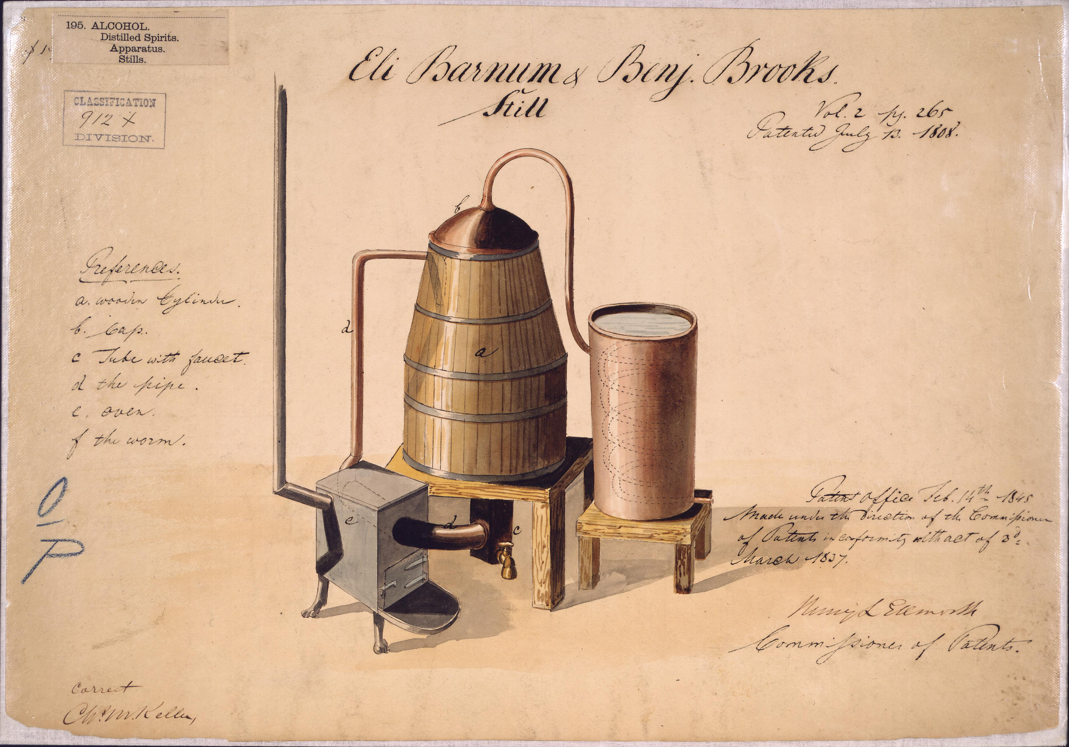 Scope and content: Stills similar to the one represented in this drawing were used to make distilled liquors and were commonly used to America during the early 19th-century. General notes: Exhibit no. 554.0011.